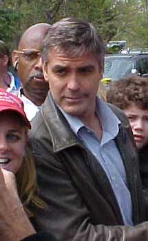 Photo taken July, 2004,Winnetka,IL. On the set for opening scene Oceans 12, took photo myself. Photo: Bad Dog